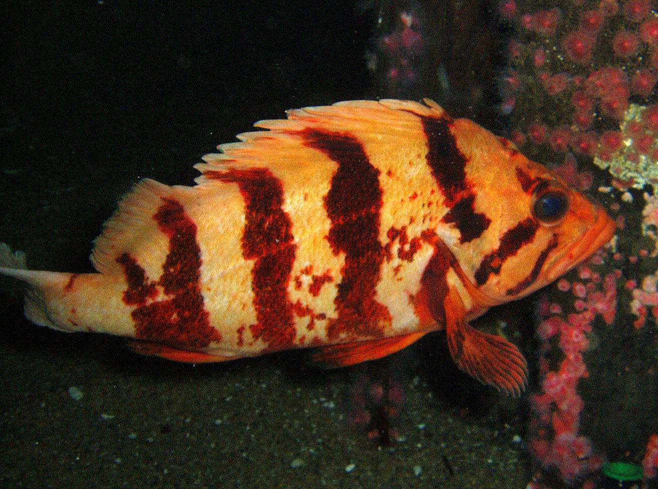 Sebastes nigrocinctus (Tiger Rockfish). Courtesy of the Monterey Bay Aquarium.